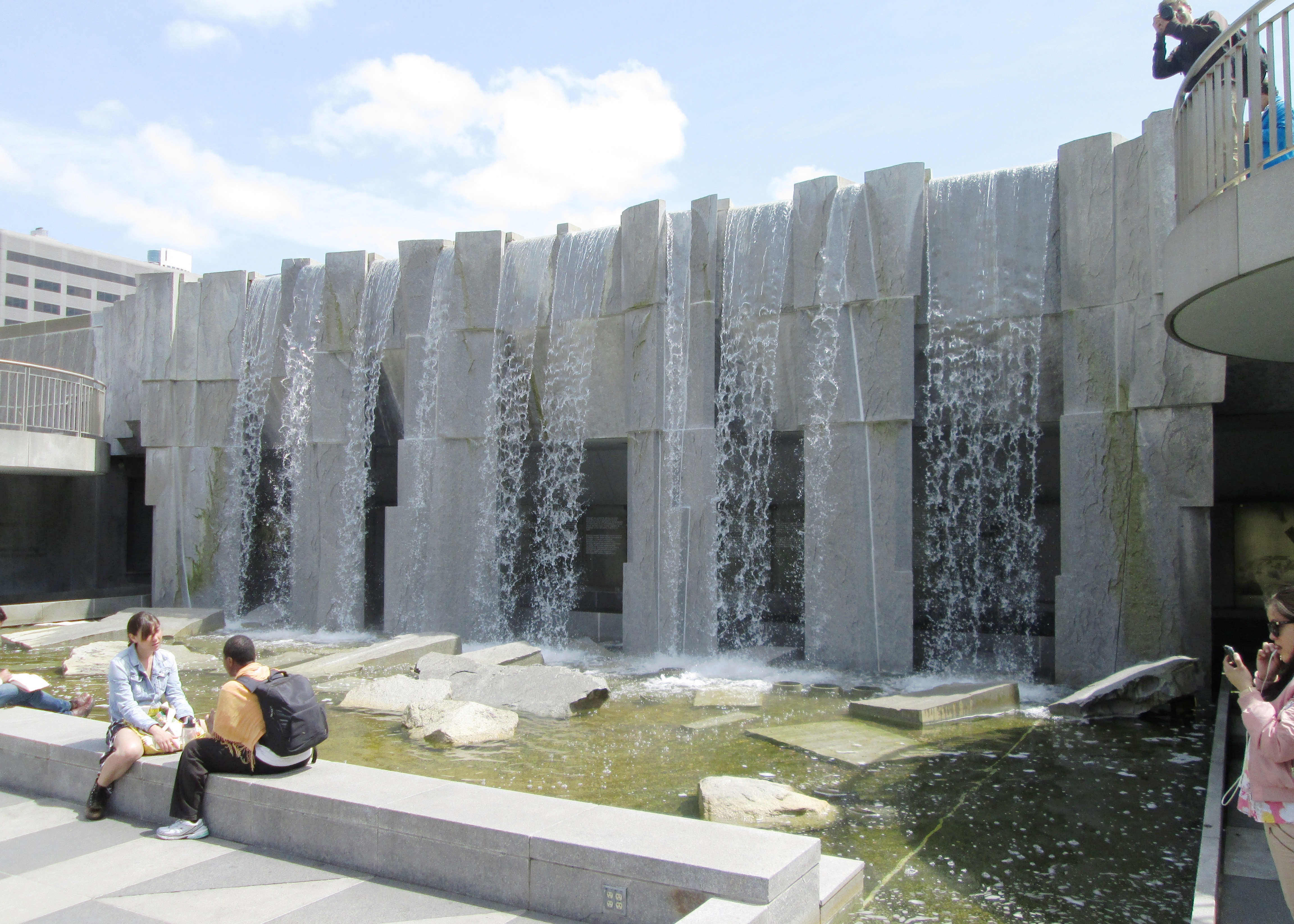 The Martin Luther King, Jr. Memorial in San Francisco, behind a waterfall in Yerba Buena Gardens.